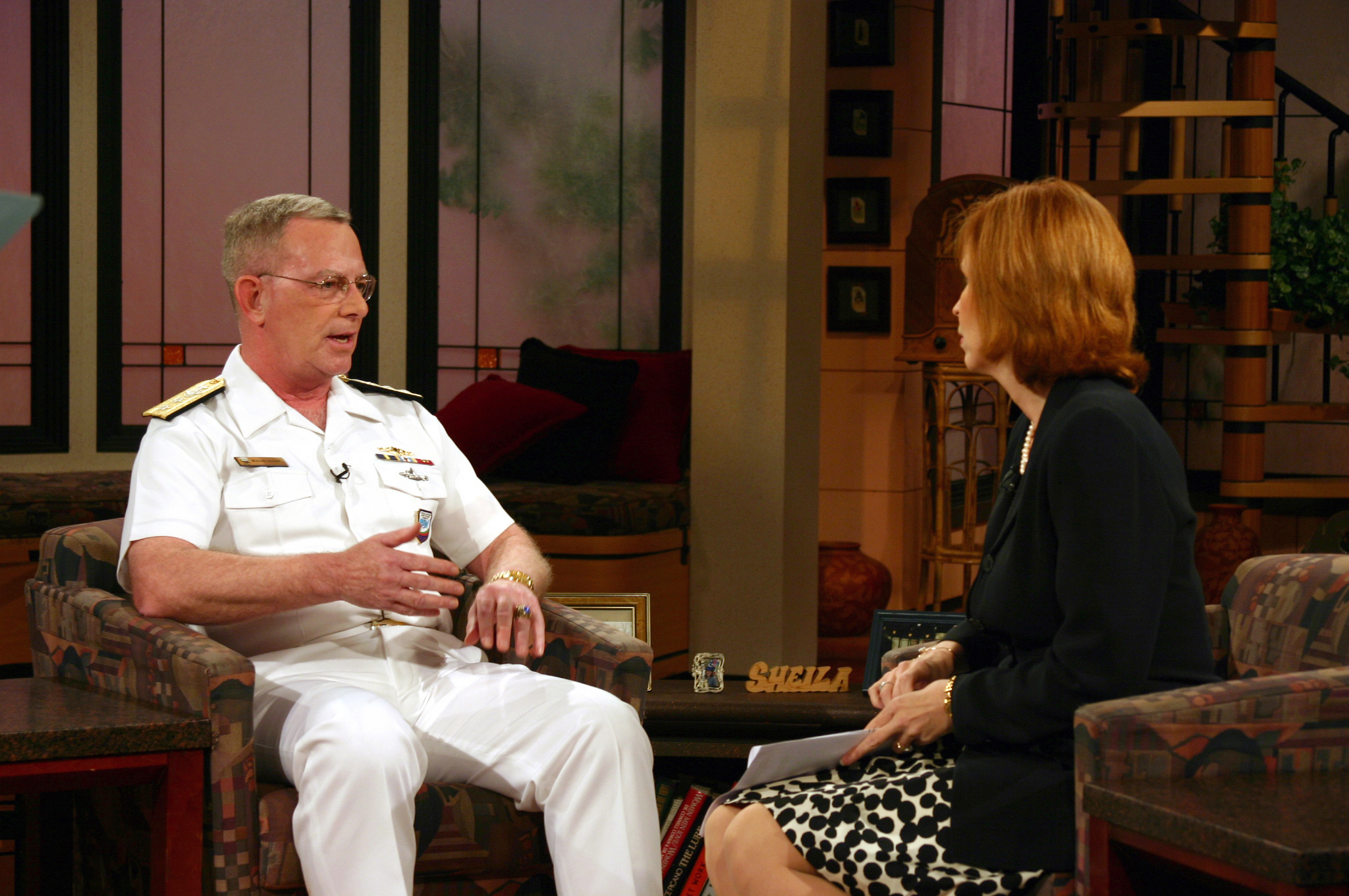 CINCINNATI (Aug. 31, 2007) – U.S. Joint Forces Command Chief of Staff, Rear Adm. Ben Wachendorf, appears on WXIX-TV’s morning news program, Fox 19 In The Morning, with local television hostess Sheila Gray. Wachendorf, a Cincinnati native, was in town as the senior officer presiding over Cincinnati Navy Week. Navy Weeks show Americans the investment they have made in their Navy, and increase awareness of the Navy in cities that do not have a significant Navy presence. U.S. Navy photo by Mass Communication Specialist 1st Class Michael Sheehan (RELEASED)